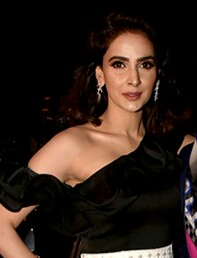 Saba Qamar and Manish Malhotra grace Masala Awards 2017